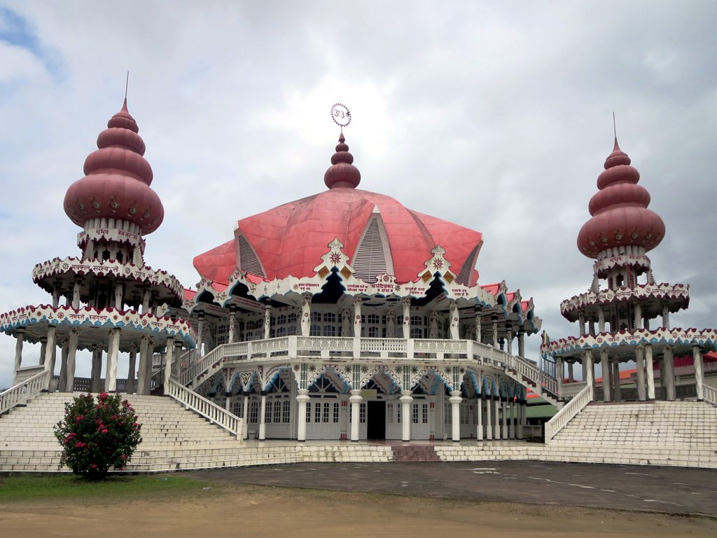 The Arya Dewaker Mandir (2001) is the largest Hindu temple in Paramaribo, Suriname.